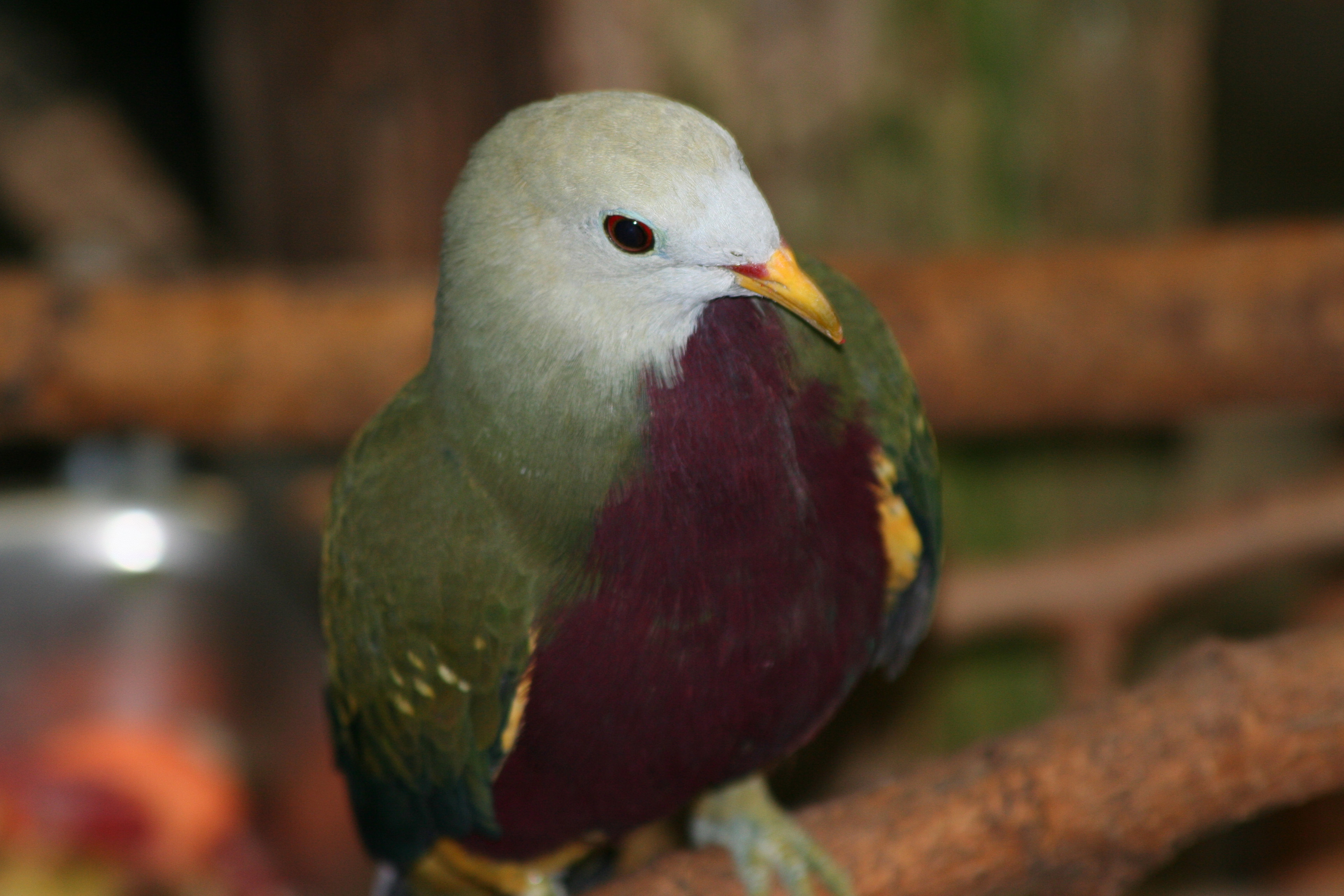 A Wompoo Fruit Dove at Dallas Zoo, Texas, USA.